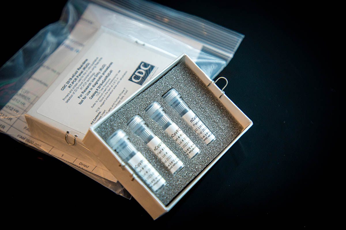 An image of the CDC's COVID-19 diagnostic panel